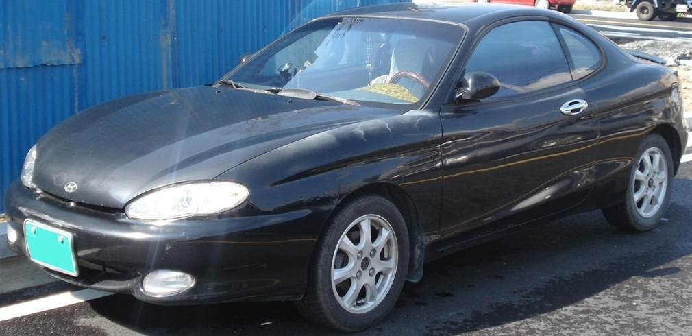 Hyundai Tiburon